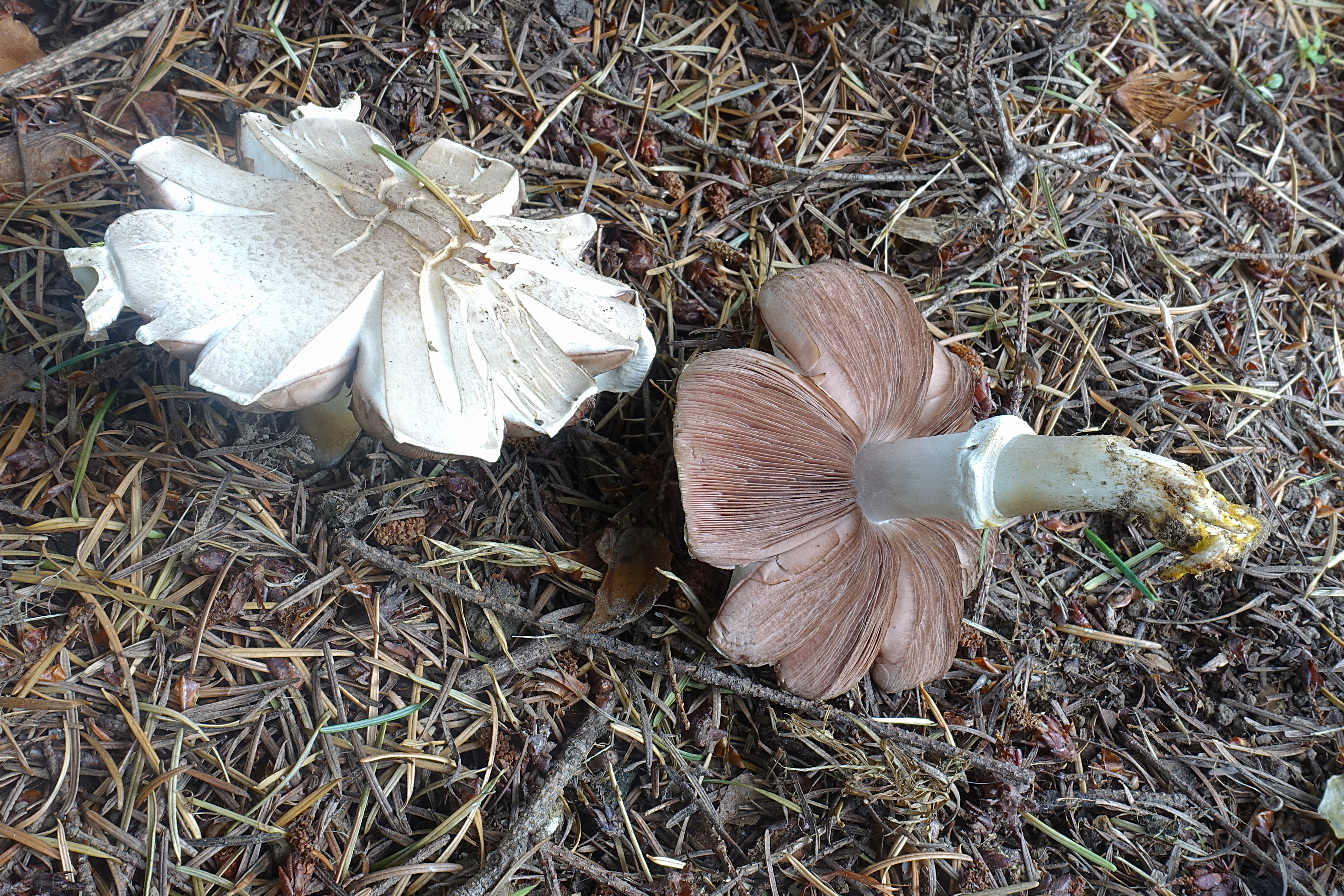 Agaricus xanthodermus in a park in Massy, France.